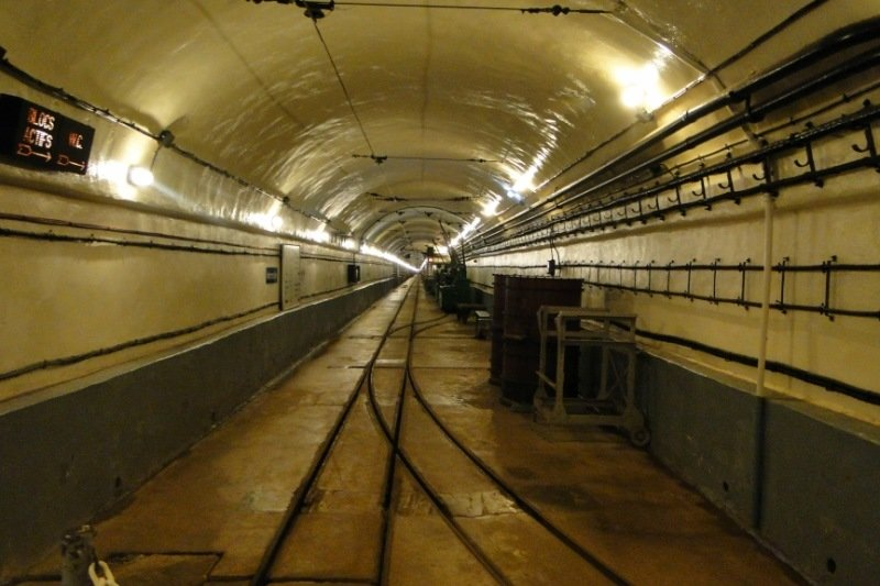 The mainTunel in Fort Schoenenbourg